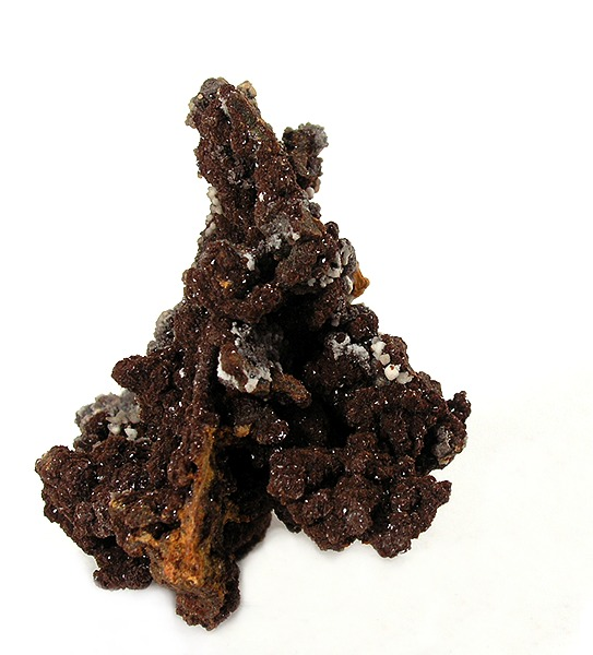 Jarosite Locality: Christiana Mine, Kamariza Mines (Kamareza Mines), Agios Konstantinos [St Constantine] (Kamariza), Lavrion District Mines, Lavrion (Laurion; Laurium) District, Attikí (Attica; Attika) Prefecture, Greece (Locality at ) Size: miniature, 4.5 x 4.2 x 3.3 cm Jarosite A sparkling specimen completely covered by microcrystallized jarosite and another white mineral, probably calcite. Very rich , overall!